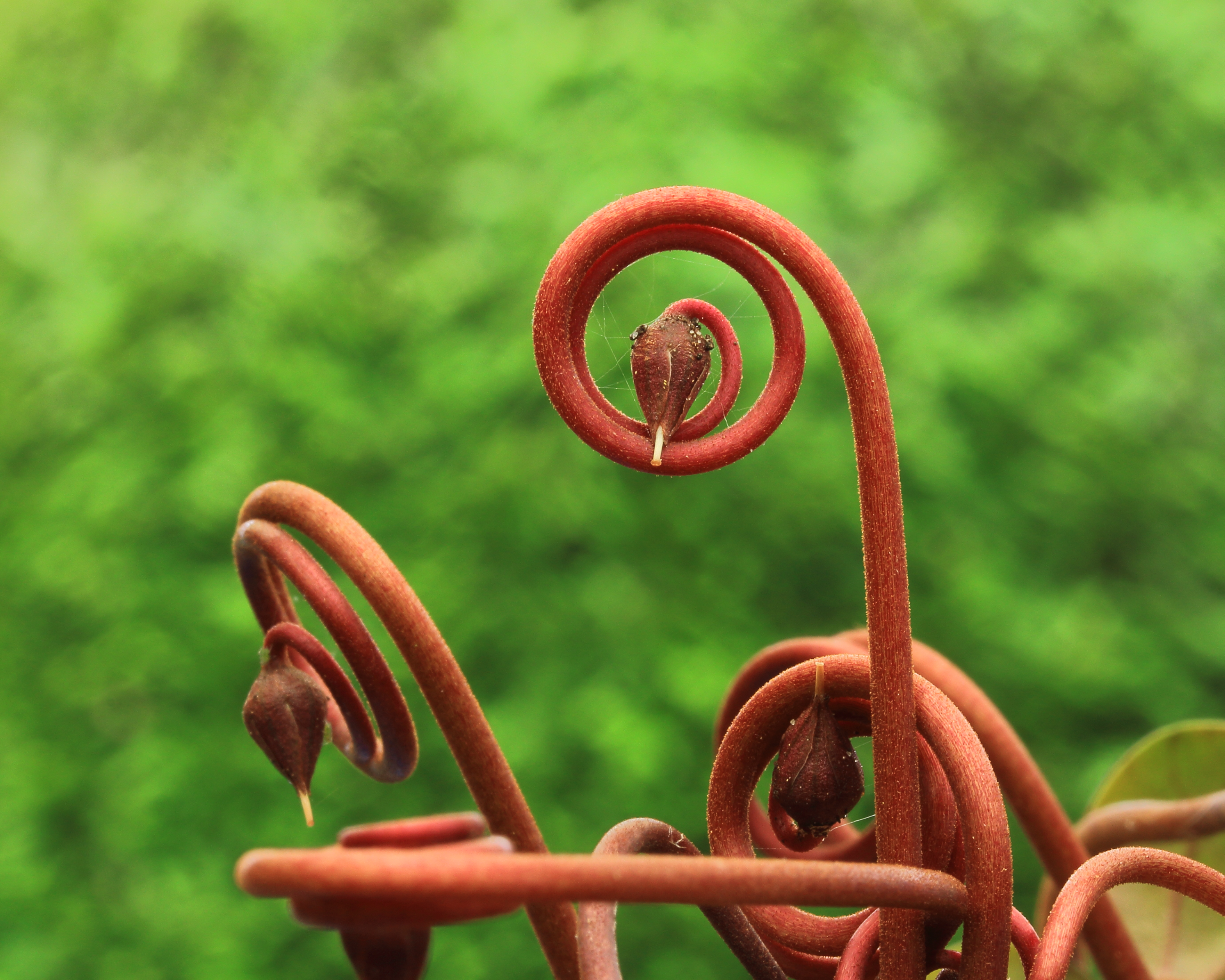 Seeds ripen in Cyclamen Coum.